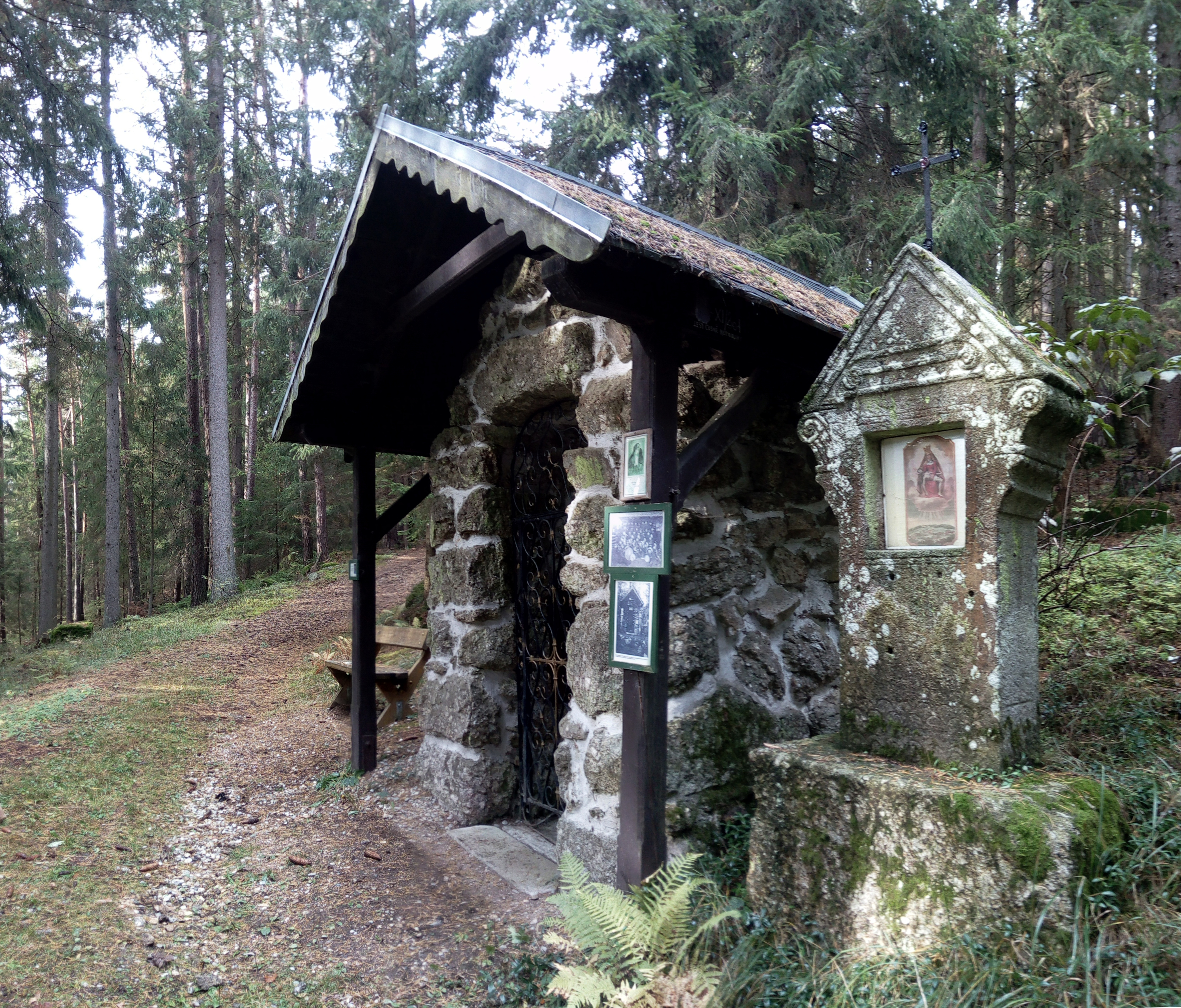 Cave Chapel at the end of the Stations of the Cross in Cetviny, Český Krumlov District, Czechia